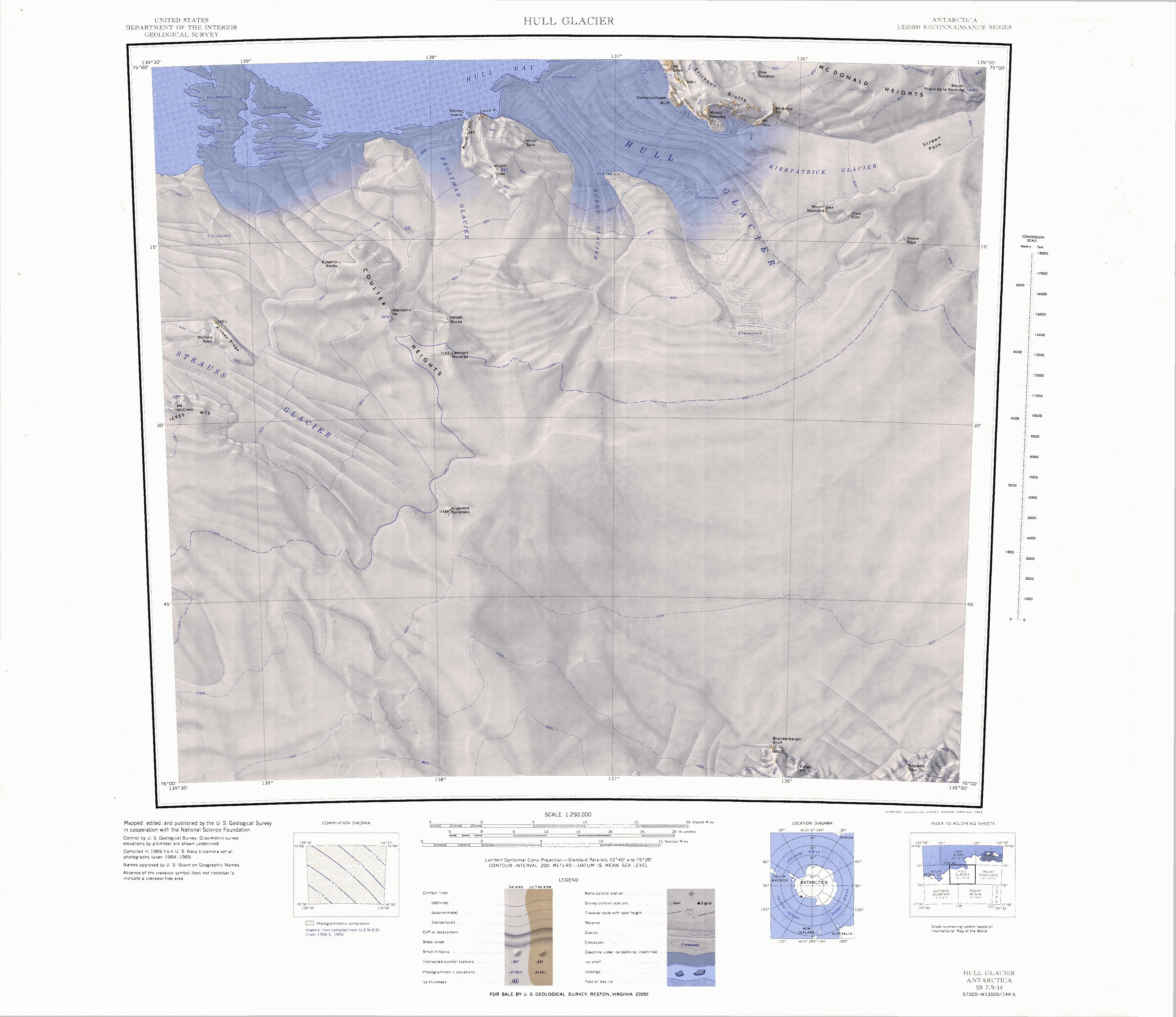 Map of Antarctica by the United States Antarctic Resource Center of the US Geological Society.